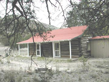 Stafford Cabin, a log cabin at the Faraway Ranch in southeast Arizona. Contributing property to the Faraway Ranch Historic District, within Chiricahua National Monument.